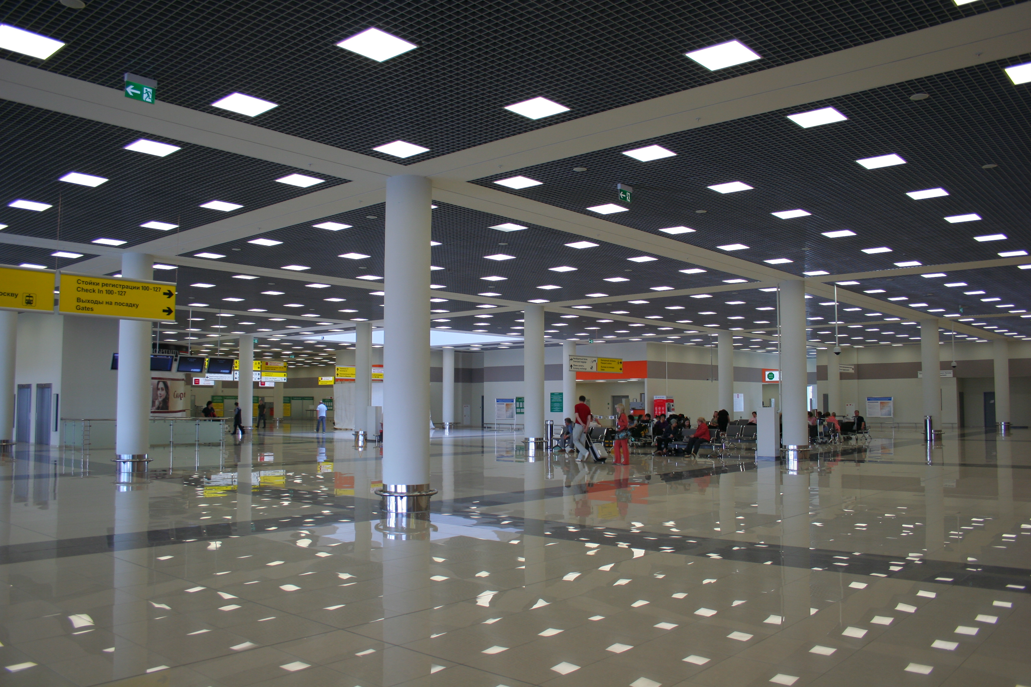 Sheremetyevo Airport of Moscow. Terminal E. View inside.